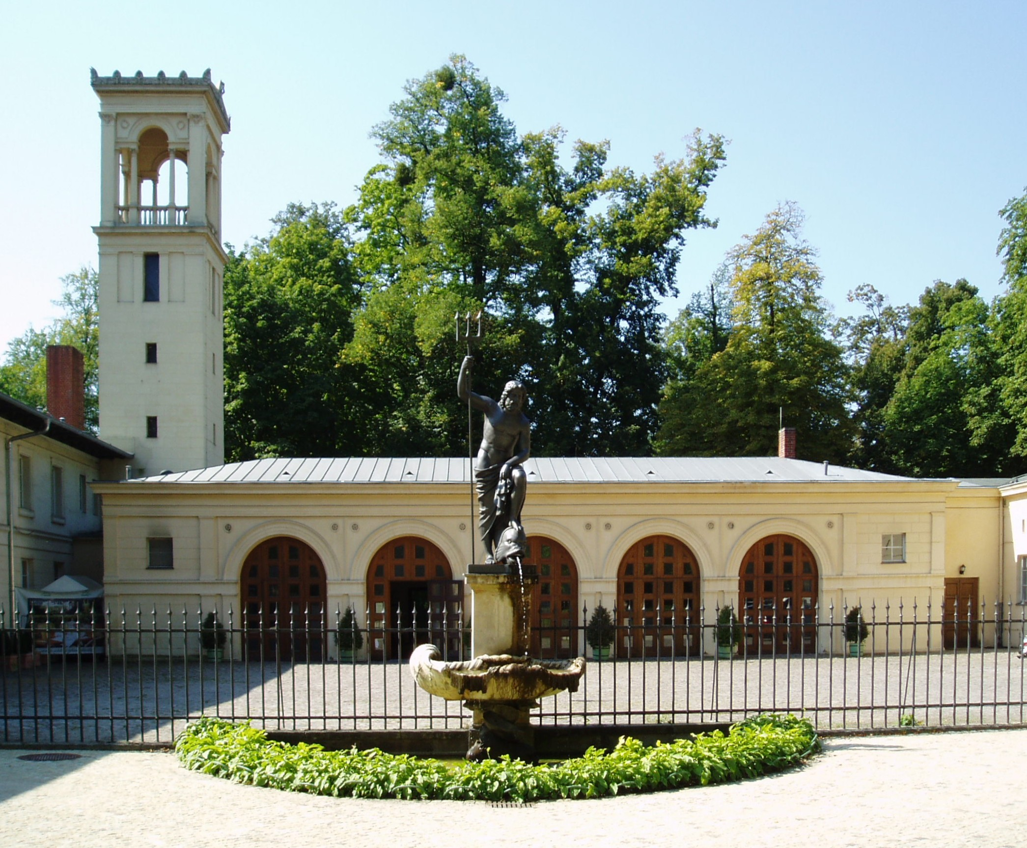 Description: Tower and carriage house, statue of Neptune by Ernst Rietschel, Park Klein-Glienicke, Berlin, Germany Author: User:Suse Date: September 2005